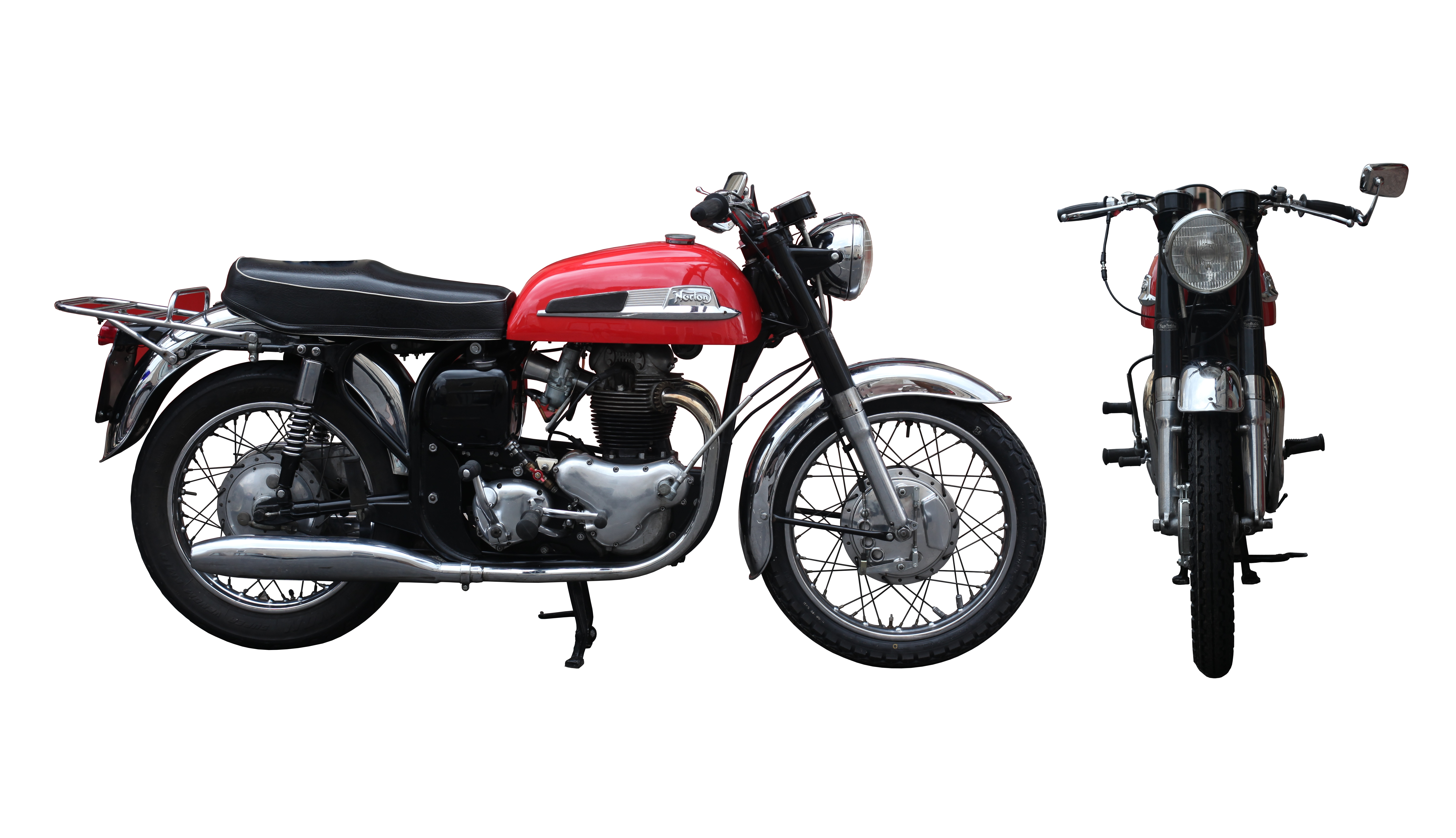 Norton Atlas